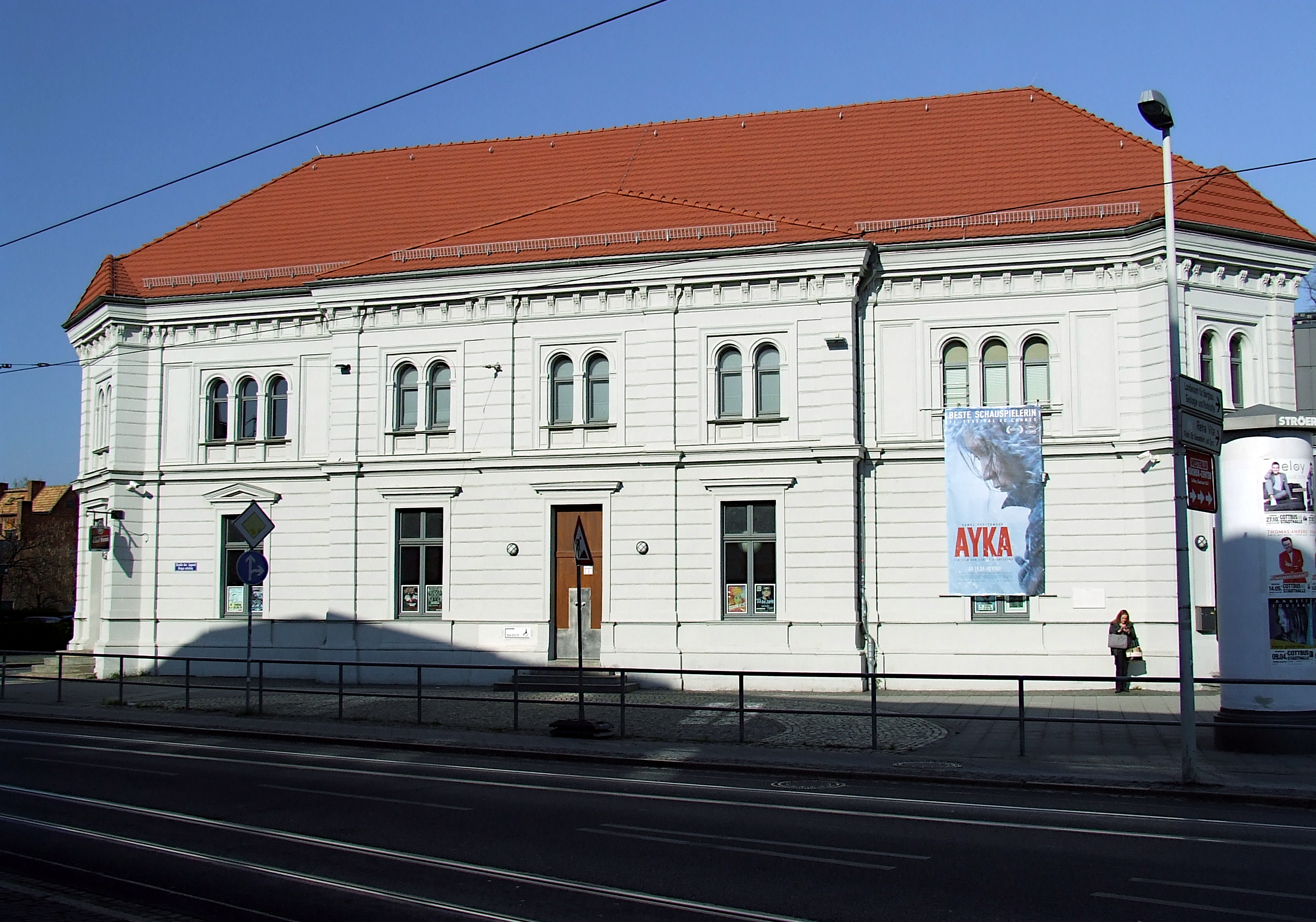 Straße der Jugend 16 (Bürger-Kasino) in Cottbus-Mitte. Shown here is the façade facing Straße der Jugend.